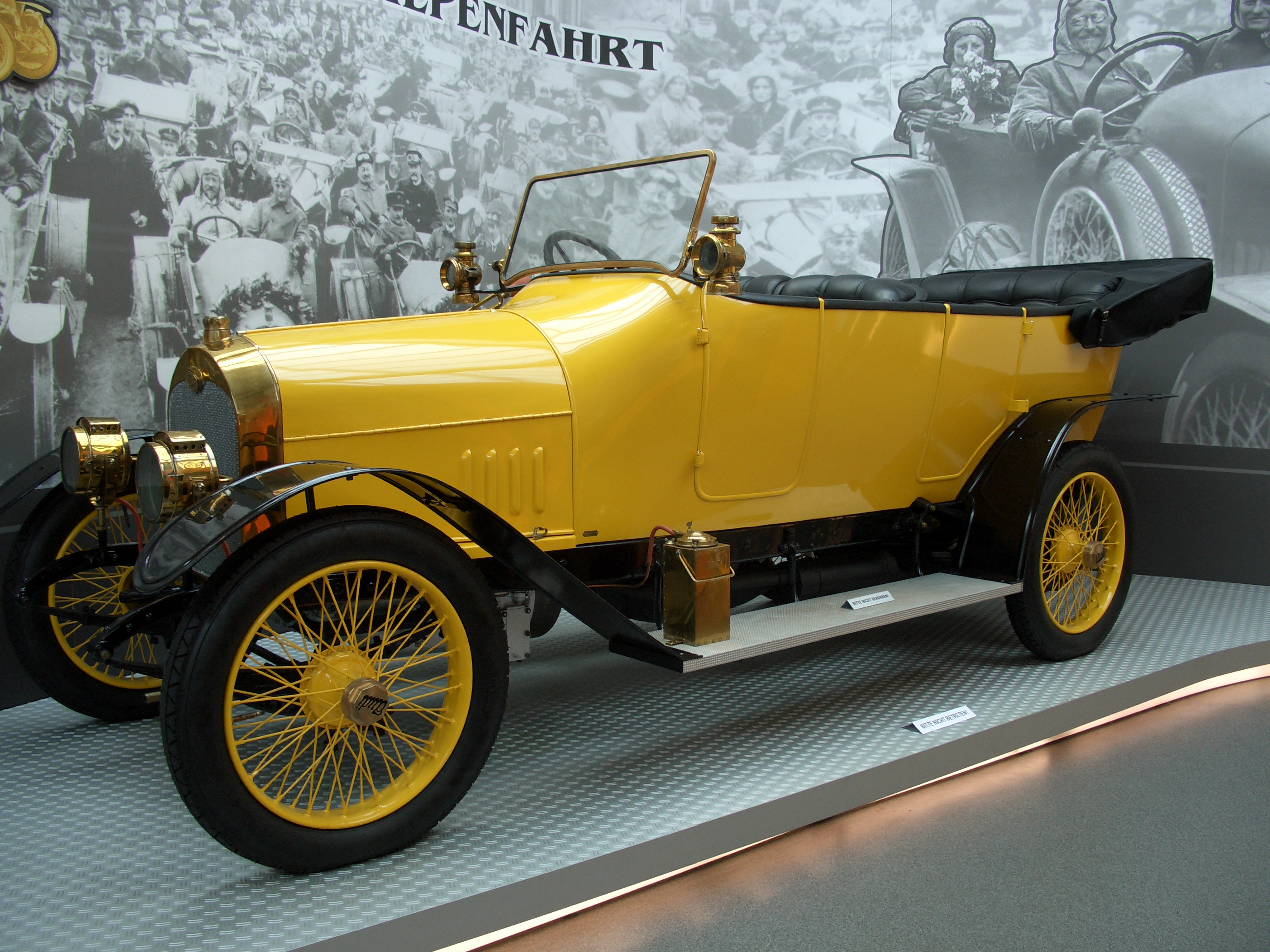 A 1916 Audi Typ B 10/28 in the August Horch Museum, Zwickau.